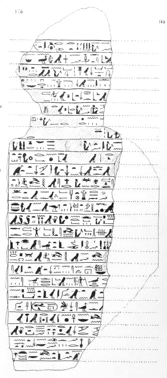 Drawing of an ancient Egyptian stela celebrating the exceptionally large Nile flood which occurred in regnal Year 6 of pharaoh Taharqa (685-684 BCE), found in the Great Temple of Tanis. Reign of Taharqa, 25th Dynasty, Third intermediate period. Now in Cairo (37488).